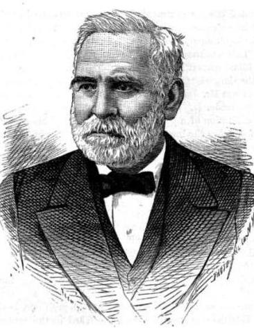 Phineas Jones, US Representative from New Jersey